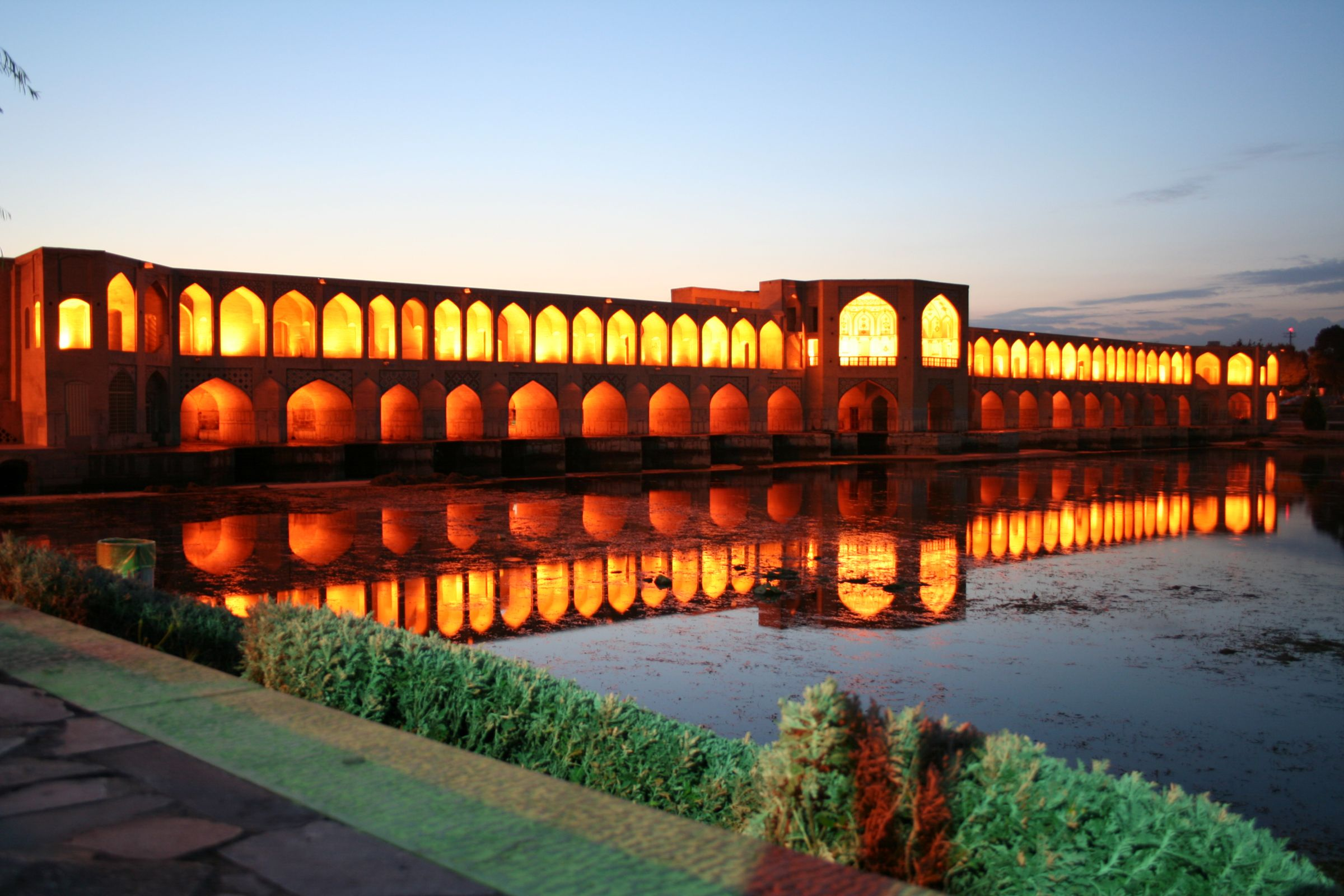 this picture taken at early morning hour.